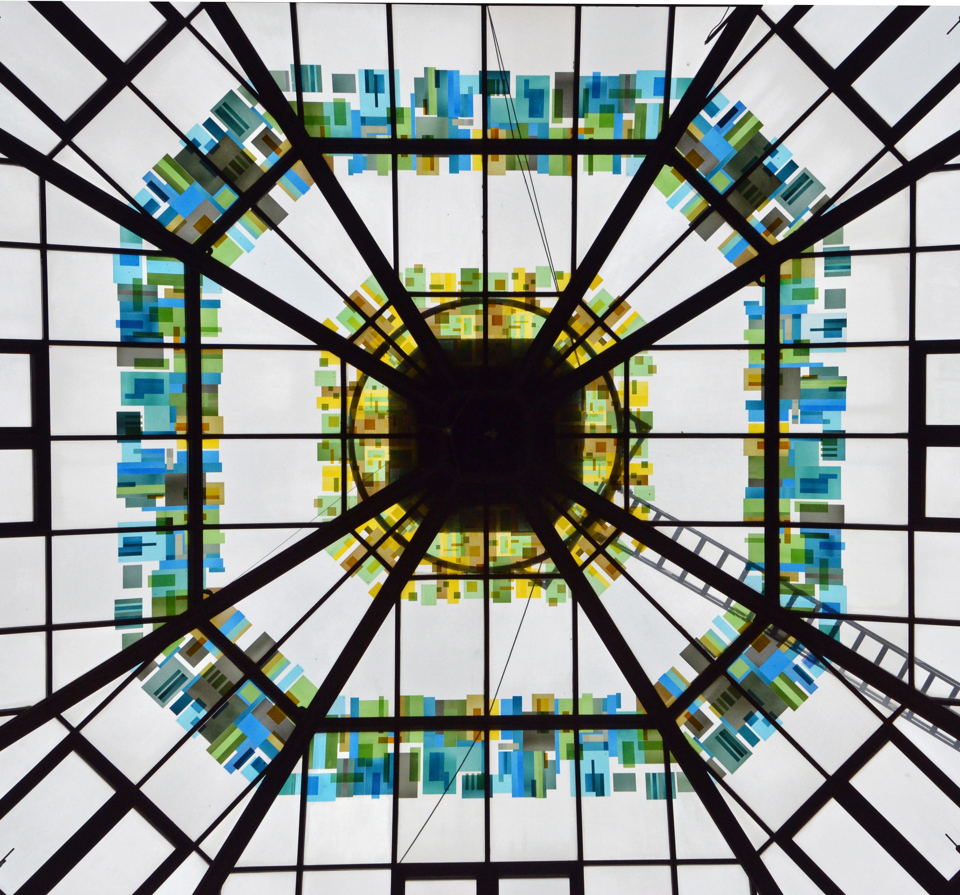 Glass roof in Dusseldorf Kö-Galerie by Heinz Lilientha